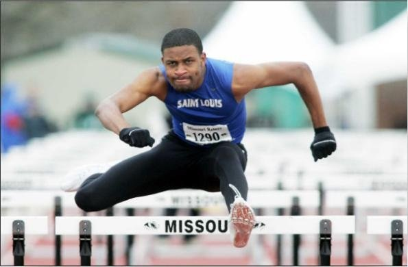 This picture was taken at a track meet.